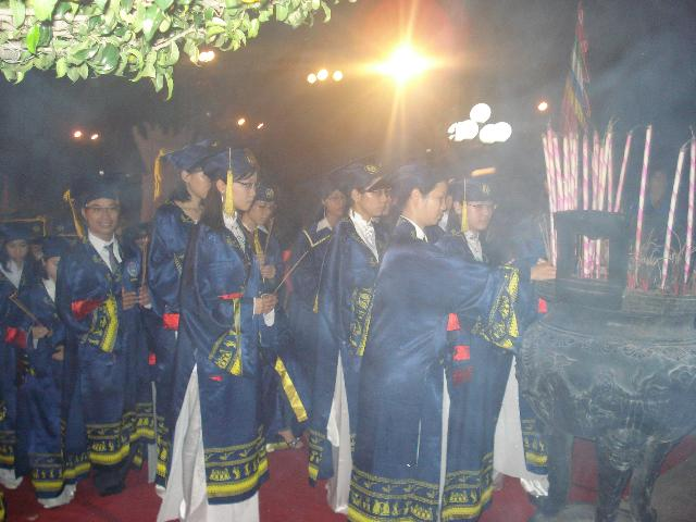 Khu-di-tích-lịch-sử-đền-thờ-trạng-trình-Nguyễn-Bỉnh-Khiêm